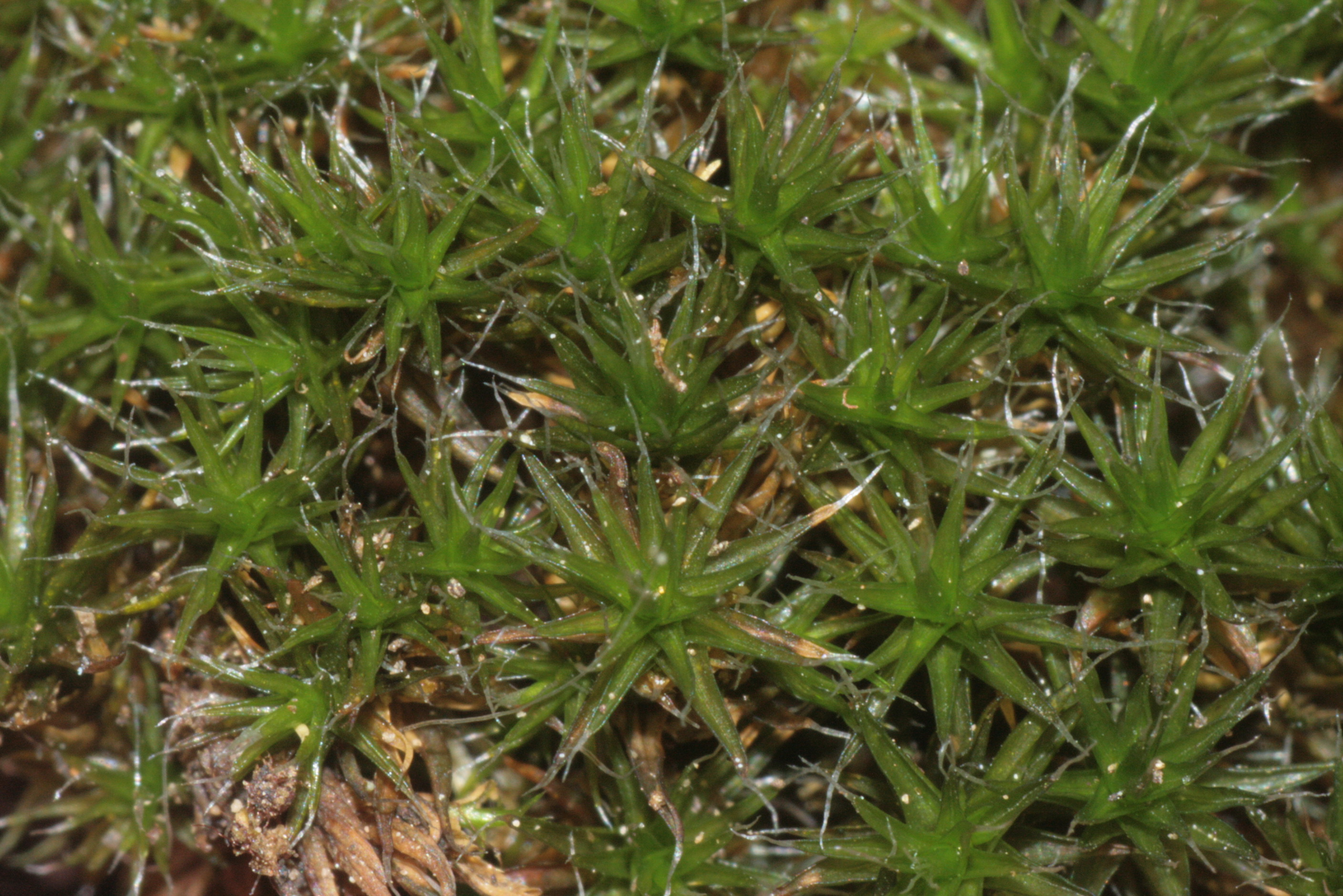 Grimmia ovalis